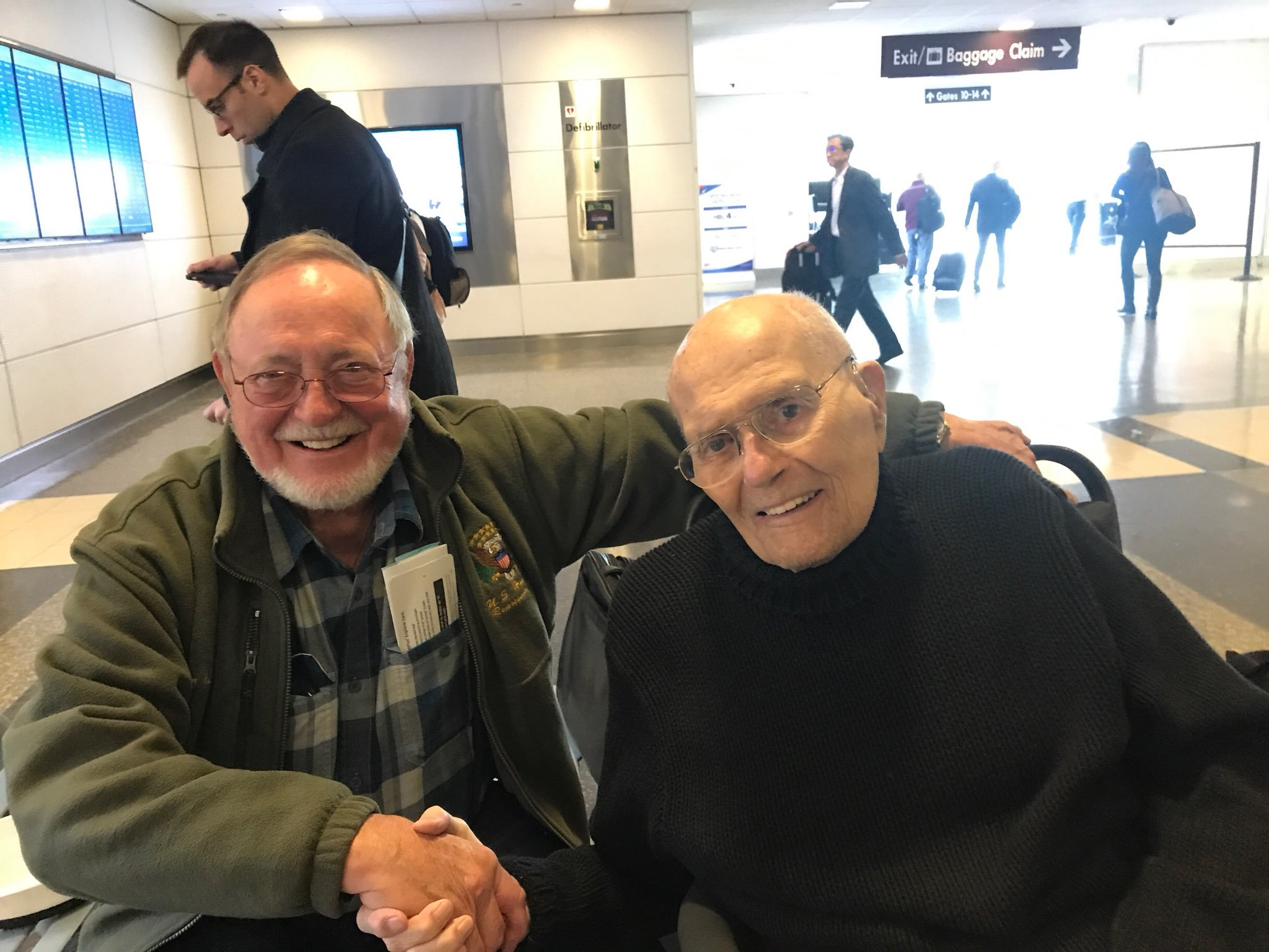 I’m praying for my dear friend and great American @JohnDingell. Stay strong John and @RepDebDingell!